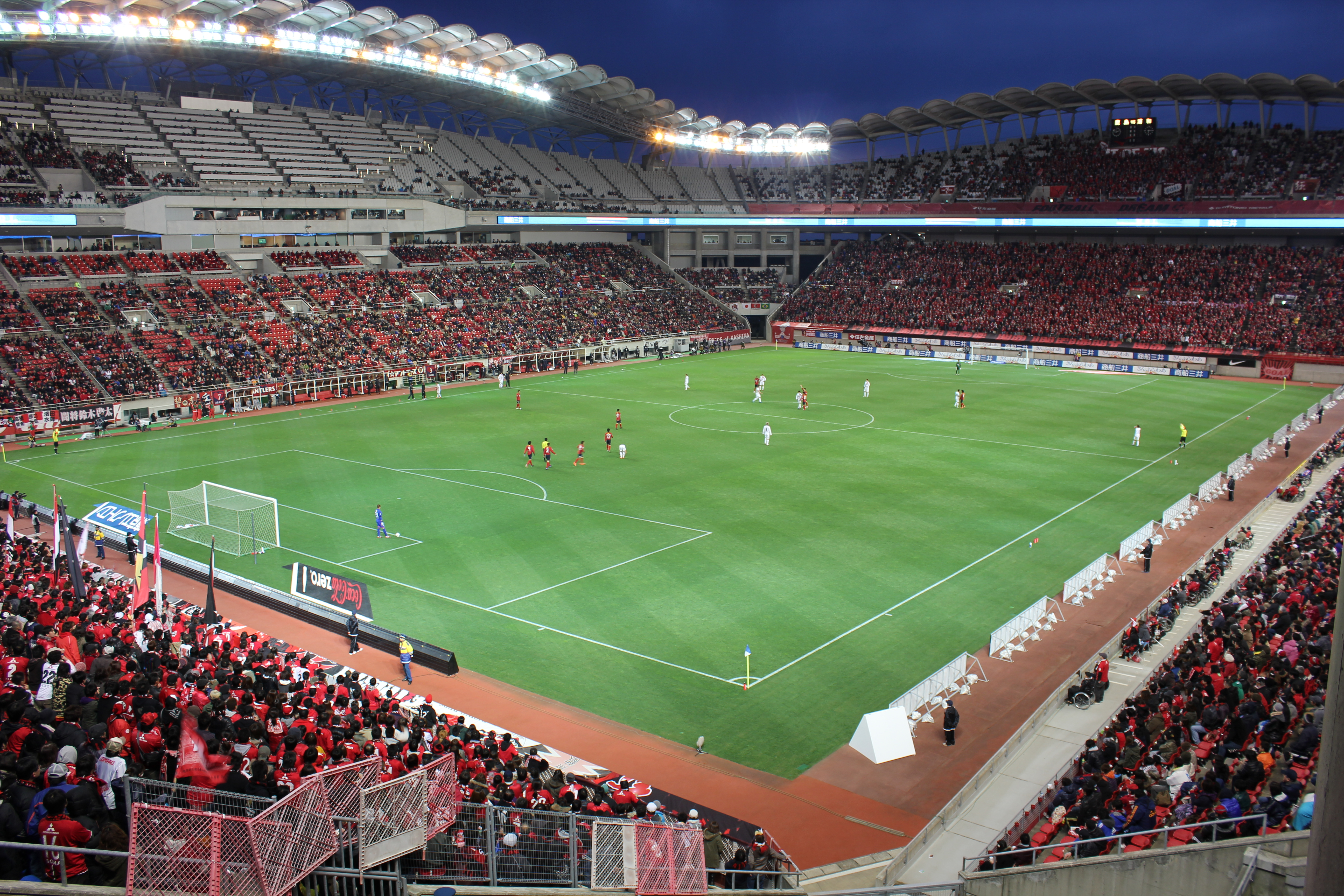 Kashima Soccer Stadium